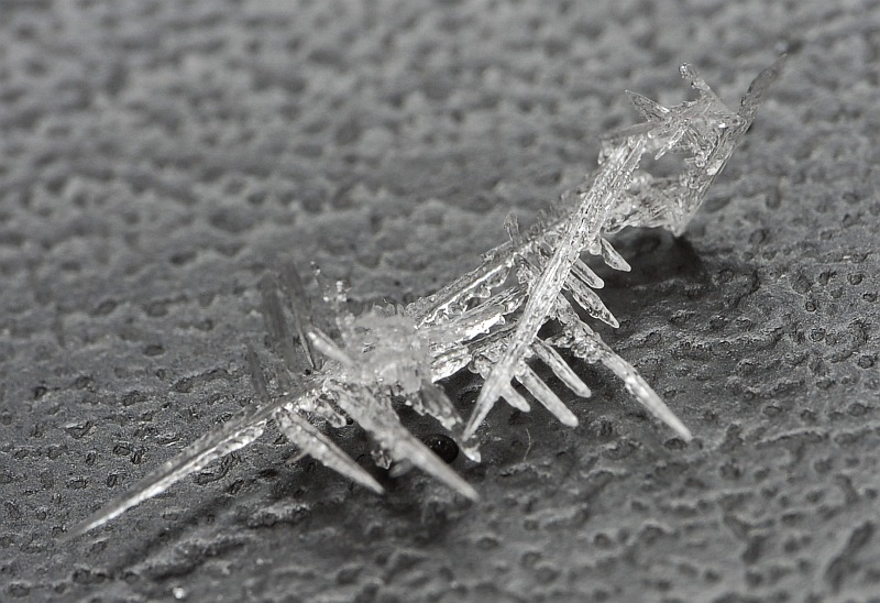 Small crystal(s) of ammonium chloride (NH4Cl). Made from an ammonium chloride solution left to evaporate to the air.